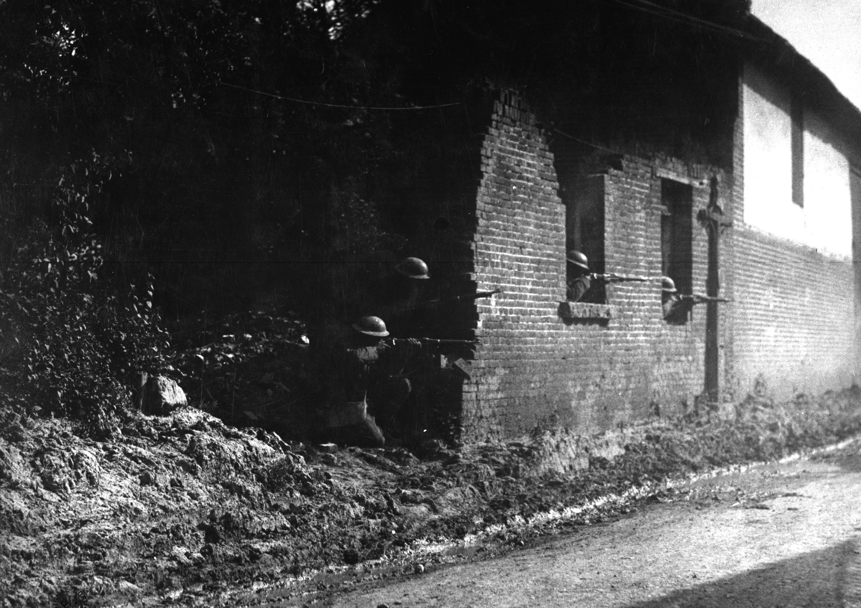 Soldiers of the US 28th Infranty in action in Bonvillers, France. ID: HD-SN-99-02275